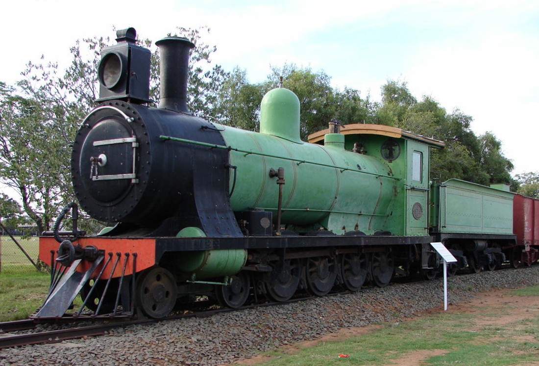 SAR Class 7 no. 975 with a Type ZA tender